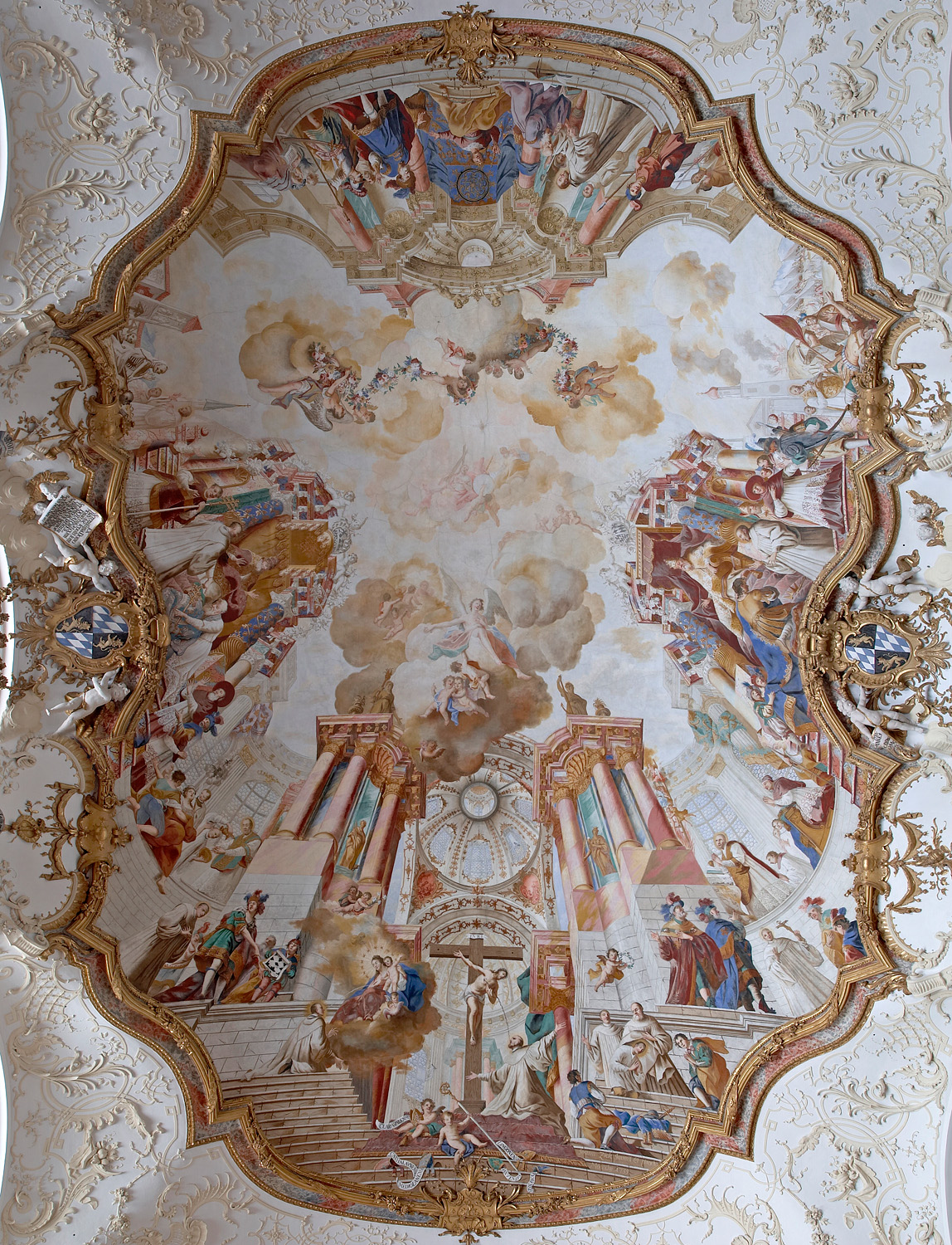 Raitenhaslach: Monastery church